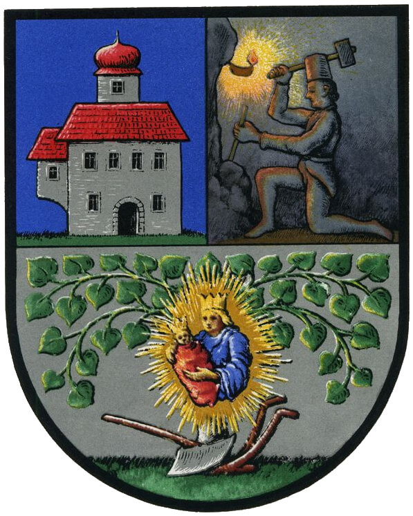 Coat of arms of Maria Lankowitz, Styria; valid until 2014